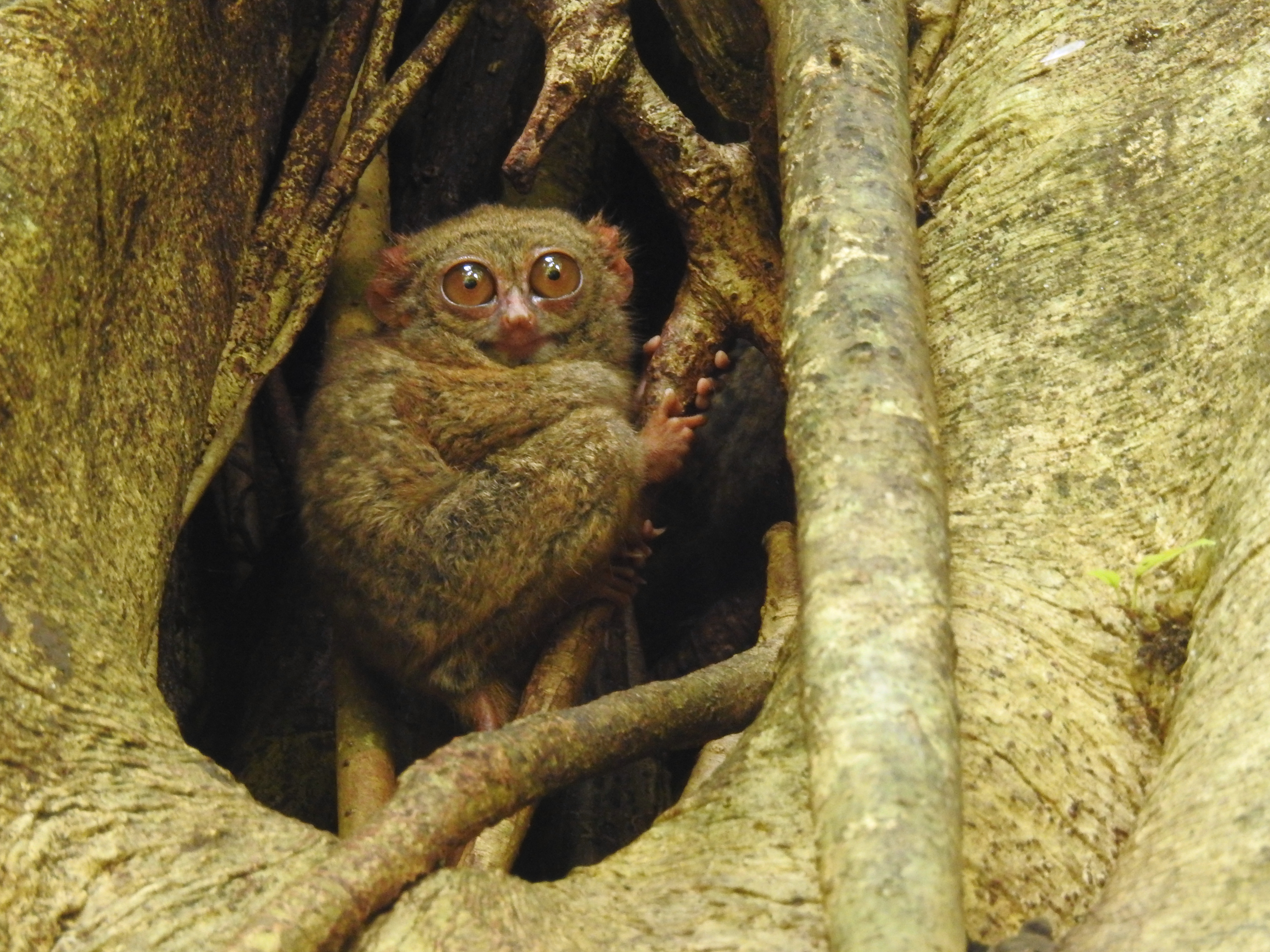 Gursky's spectral tarsier (Tarsius spectrumgurskyae) resting in strangler fig in Tangkoko, Sulawesi